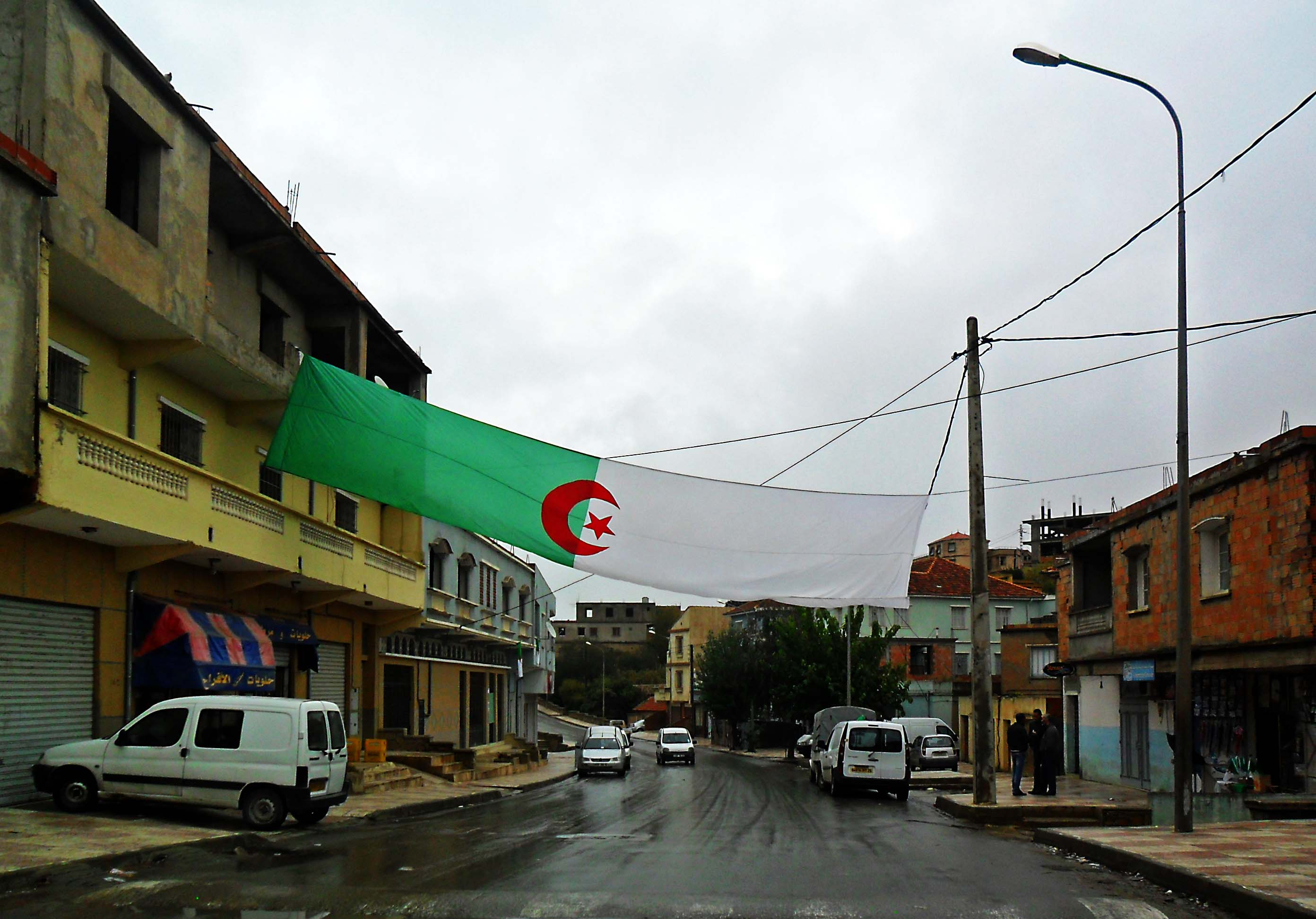 Thenia الثنية